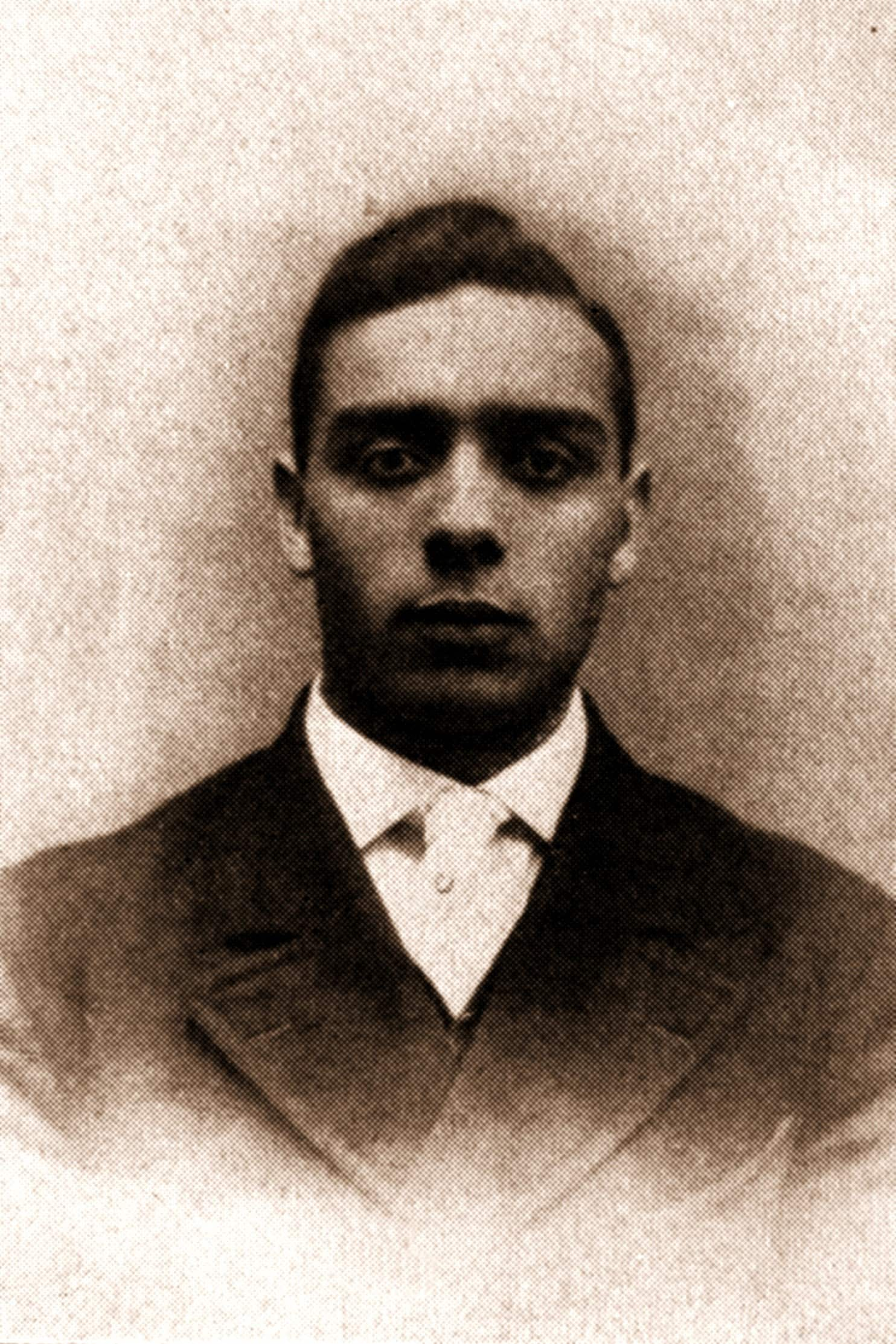 Photographic portrait of E.B. Henderson